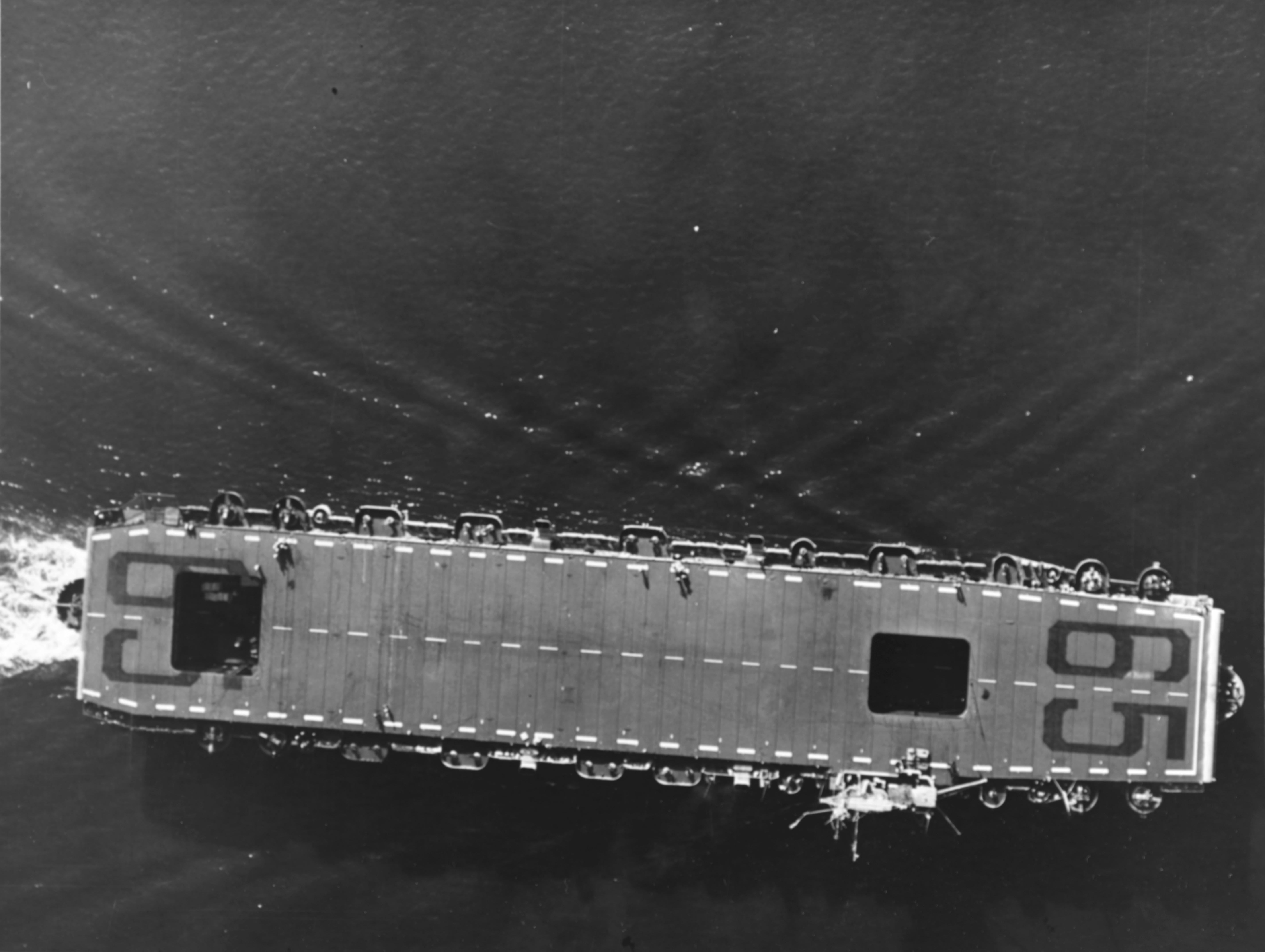 The U.S. Navy escort carrier USS Wake Island (CVE-65) underway in Hampton Roads, Virginia (USA), on 9 November 1944. She is painted in Camouflage Measure 33, Design 10A. The photo was taken by an aircraft from Naval Air Station Norfolk.